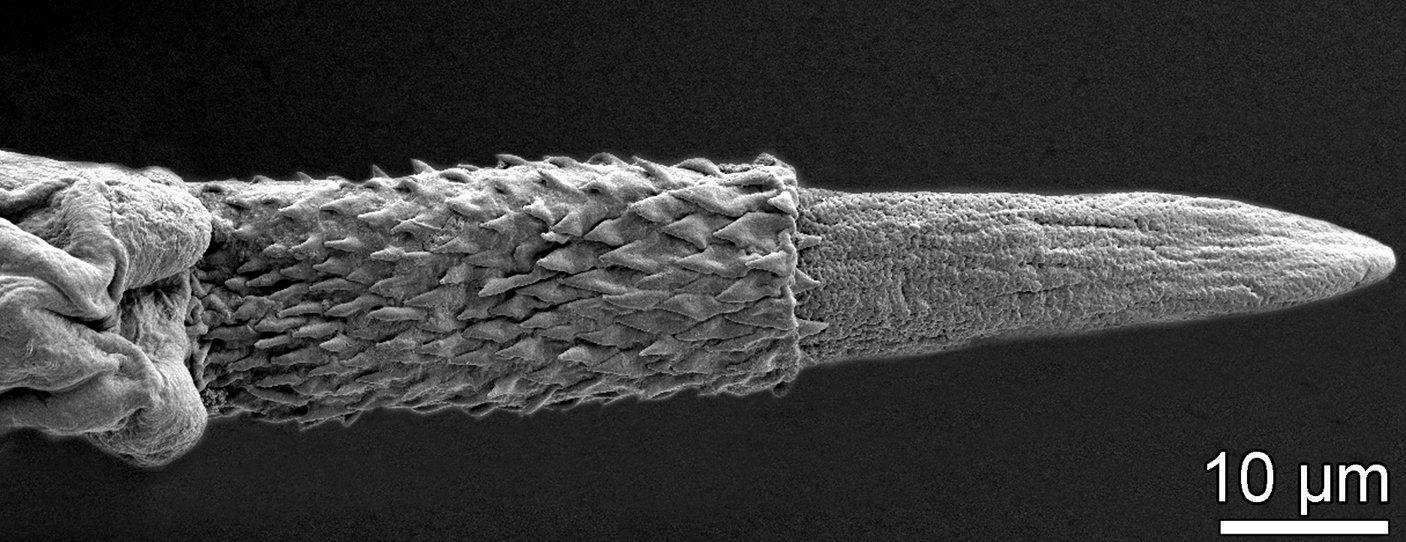 Capillaria plectropomi Moravec & Justine, 2014 (Nematoda: Capillariidae) from Plectropomus leopardus. Male caudal end with extruded spicule and spinose spicular sheath, dorsal view. Transmission electron microscopy.